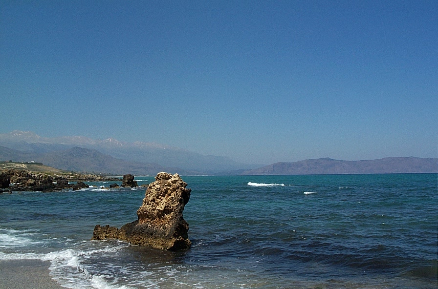 View of Souda Bay ,Crete. Beautiful bit of coast but a terrible history behind it all, Military cemeteries for both German and Allied troops are found here.